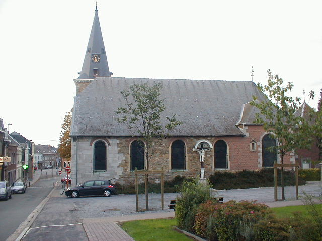 church of Thimister Walon: eglijhe di Timister (portrait saetchî pa L. Mahin).